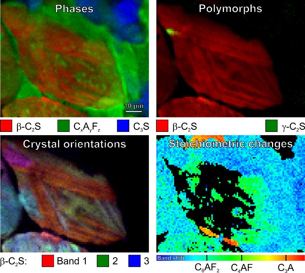 Raman microspectroscopic imaging can provide distribution maps of chemical compounds and of several material properties. By way of example, Raman images of an unhydrated clinker remnant in a 19th-century cement mortar are shown (cement chemist's nomenclature: C ≙ CaO, A ≙ Al2O3, S ≙ SiO2, F ≙ Fe2O3).